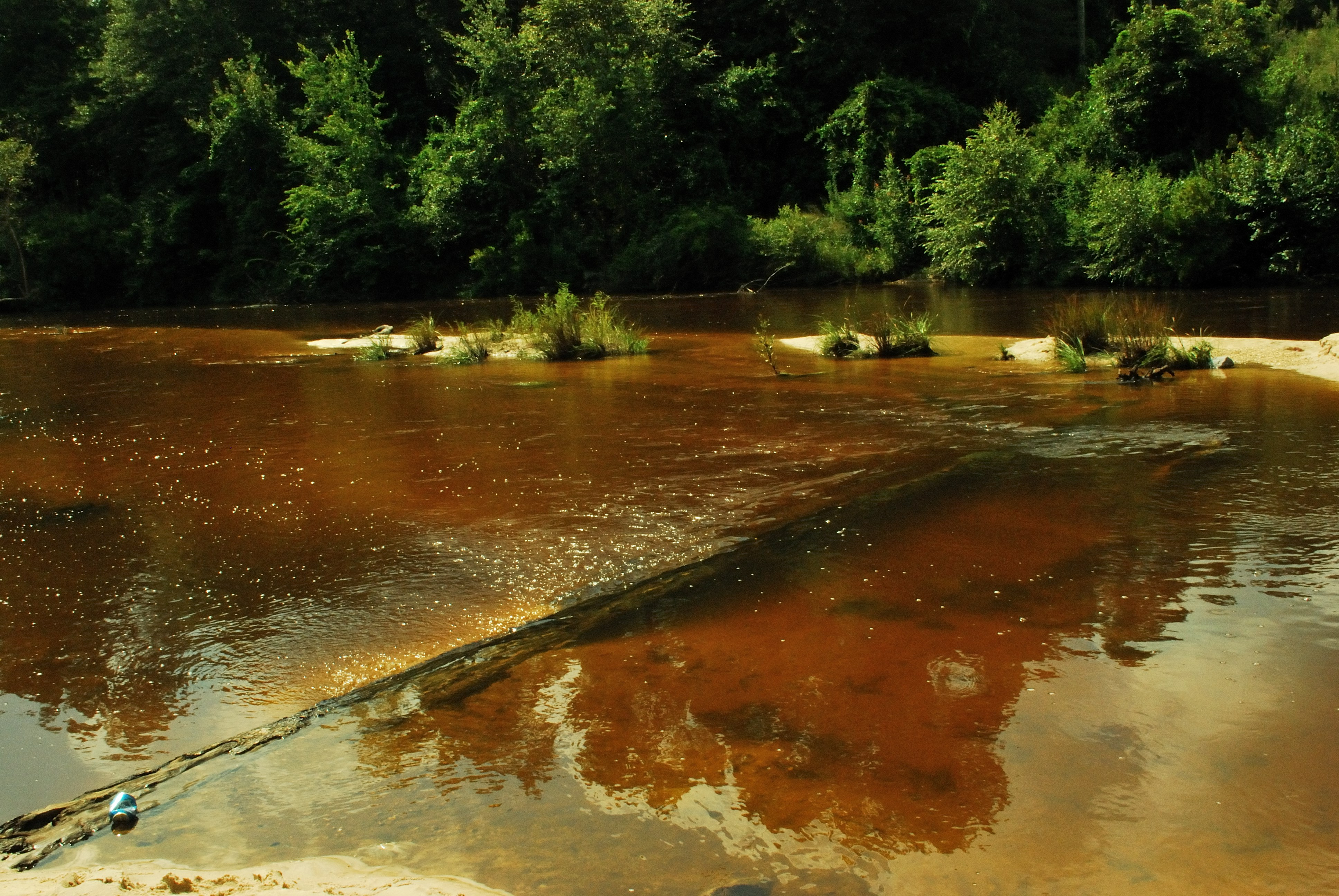 Red Creek